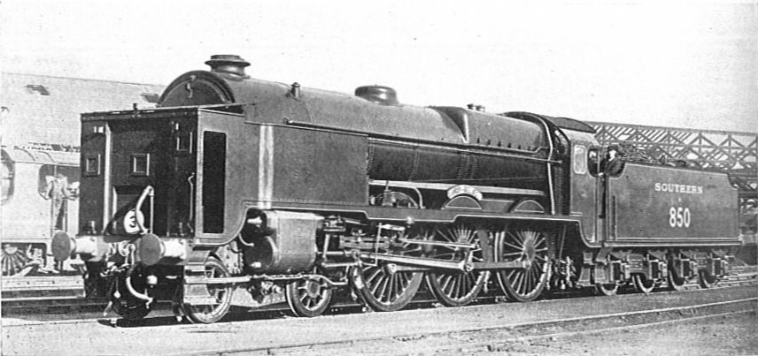 "Lord Nelson" of the Southern Railway Equipped with Shelter for Indicating Tests